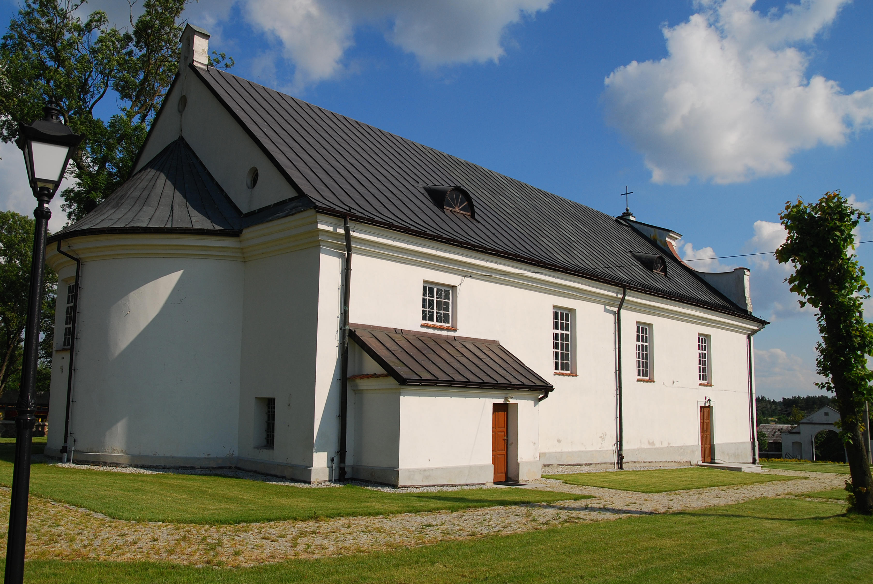 This photo from Podlaskie Voievodeship was taken during Polish Wikiexpedition 2009 set up by Wikimedia Polska Association. The making of this document was supported by Wikimedia Polska. Kościół w Dziadkowicach